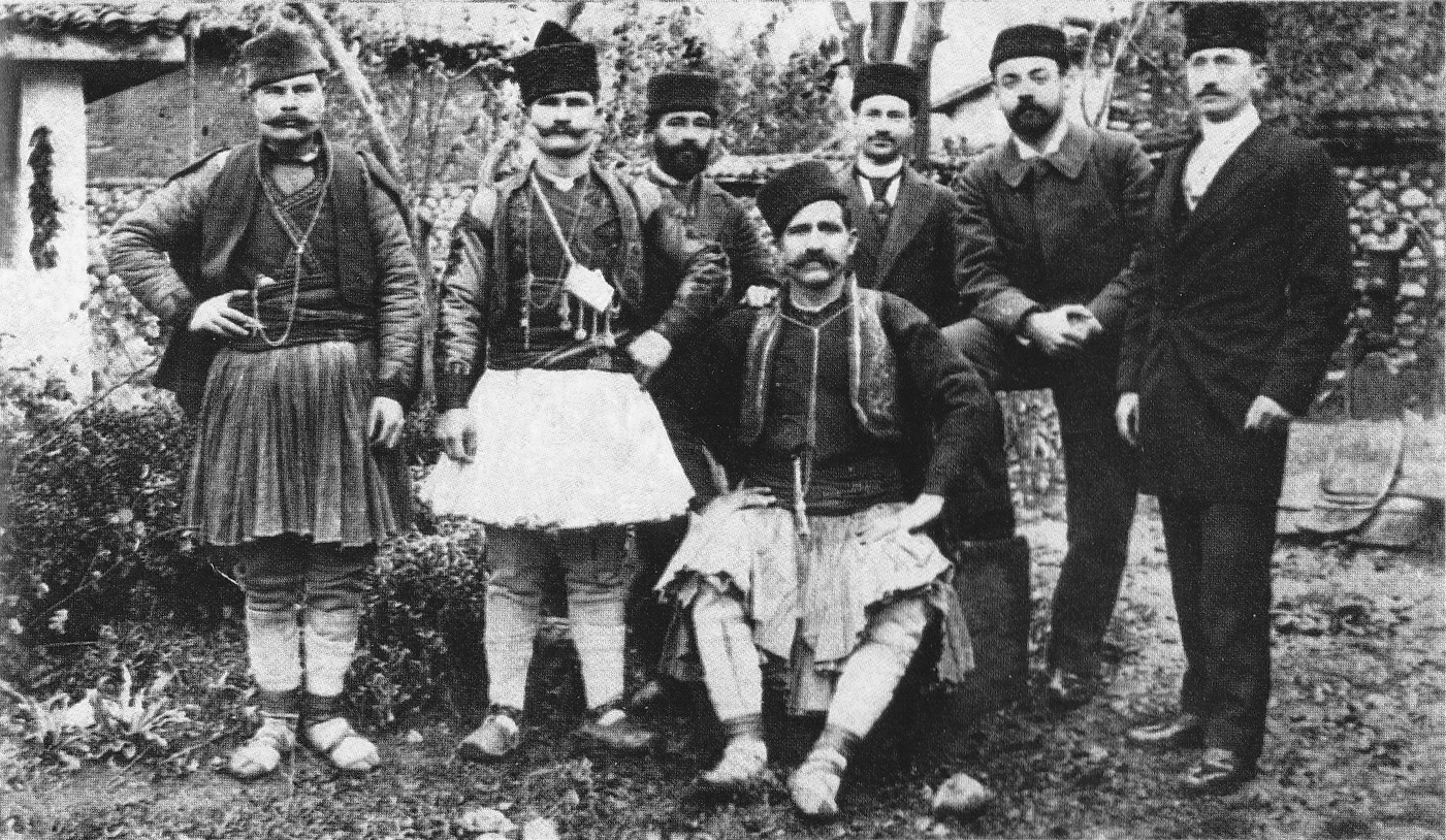 Revolutionary group in Dupnitsa2